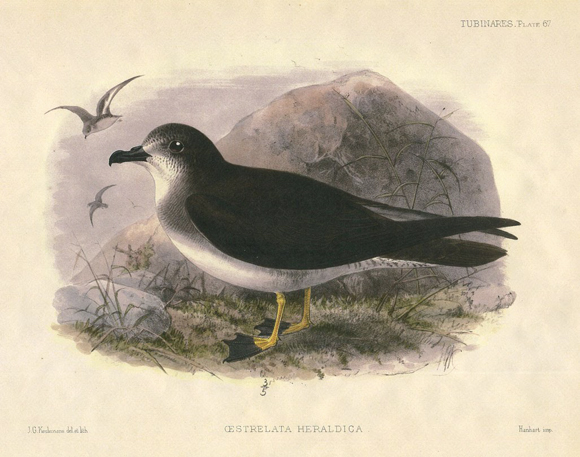 Plate 67 from Godman's 'Monograph of the Petrels.' The form "heraldica" is associated with "arminjoniana."